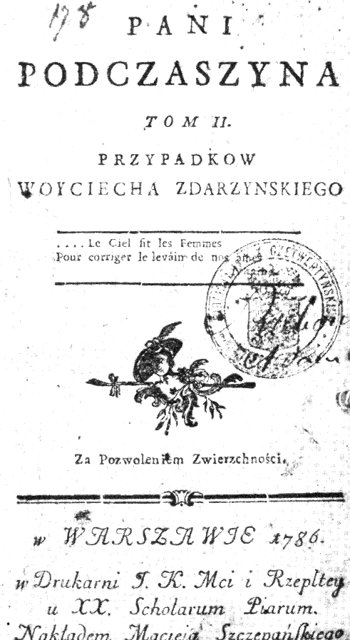 First page of "Pani Podczaszyna", novel by Dymitr Michał Krajewski, published in 1786.